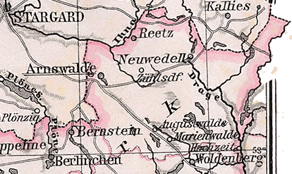 Detail from a map of Brandenburg.